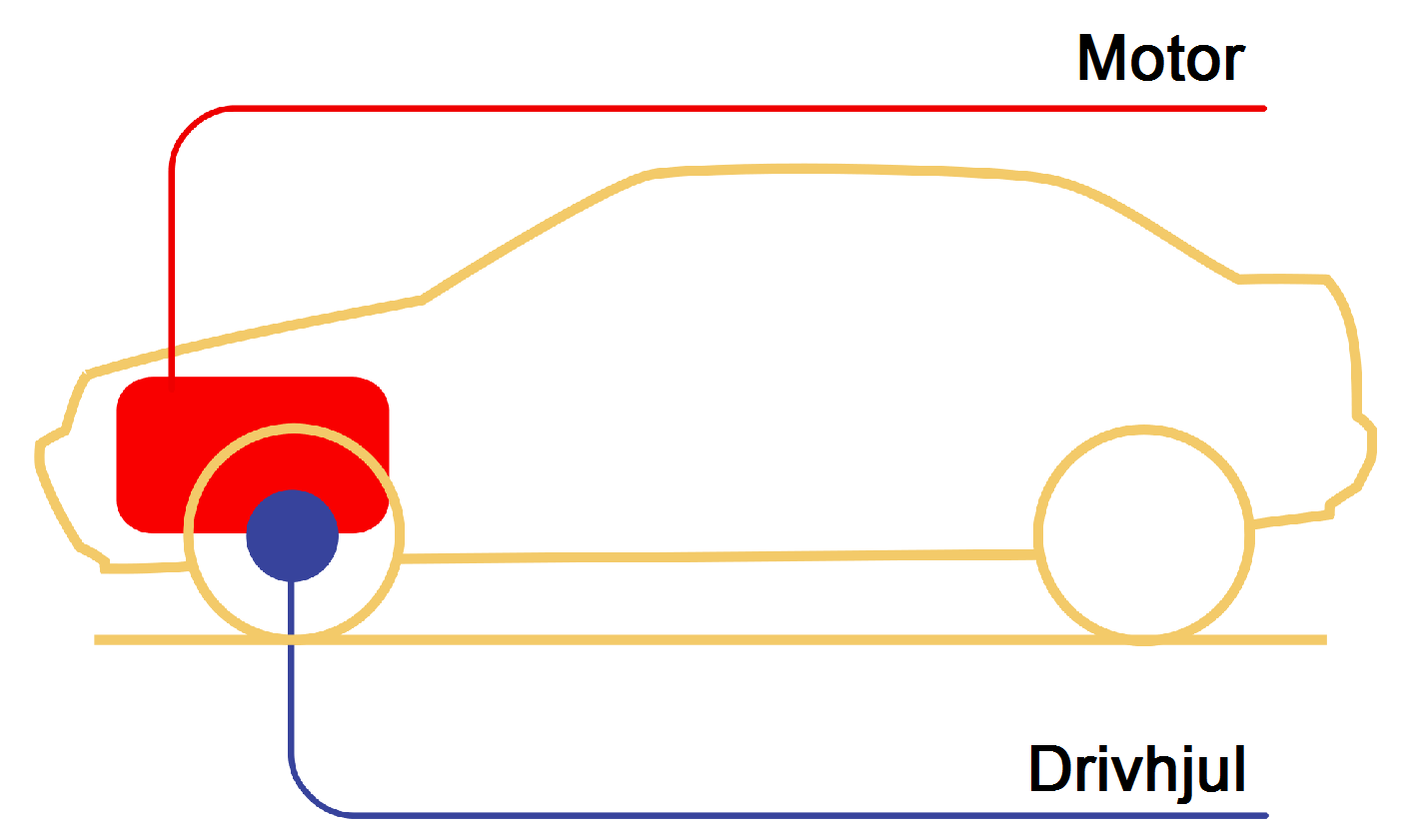 Showing Front-wheel principle in a car. Translated from english